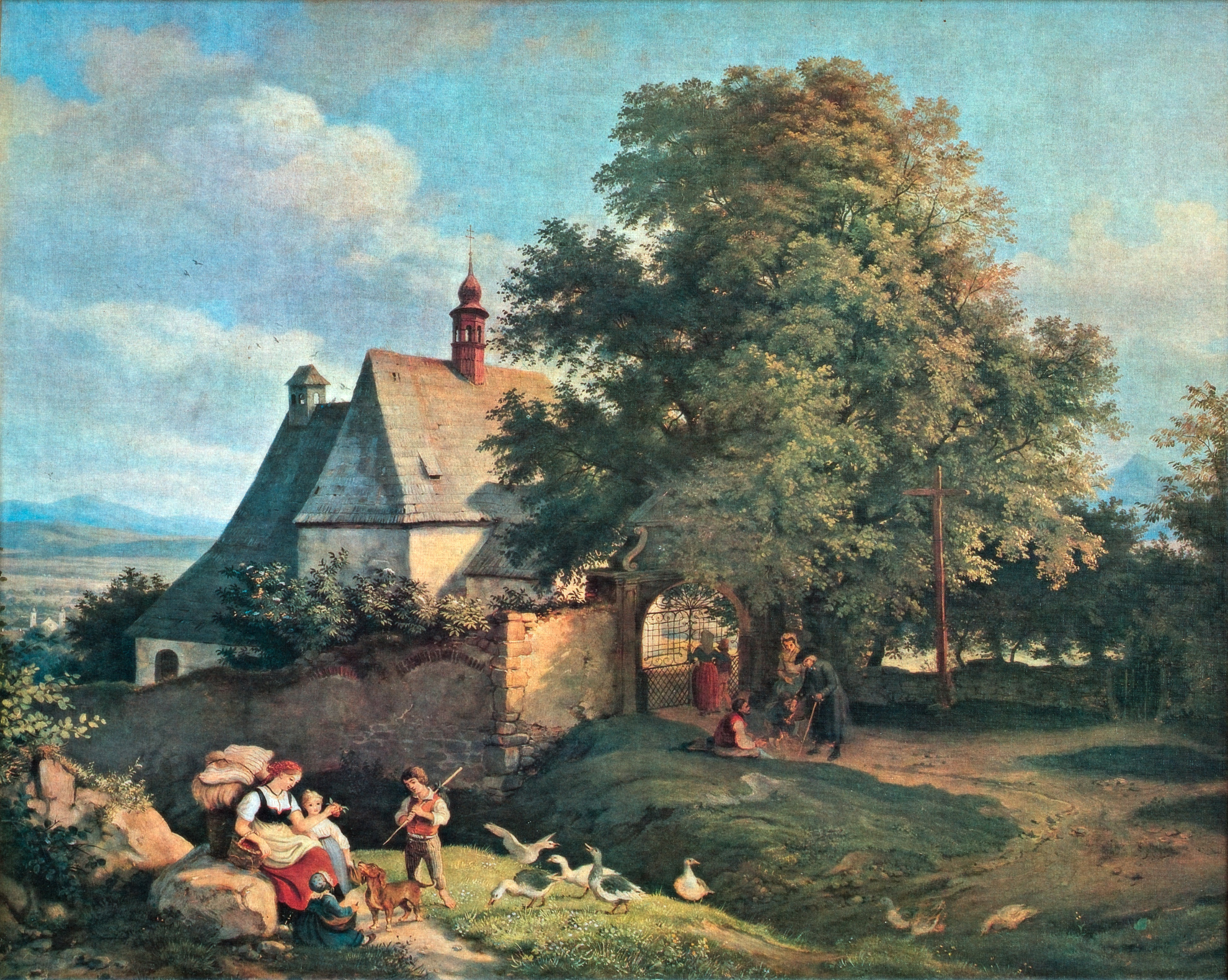 st. Anna's church in Krupka, Czech Republic.